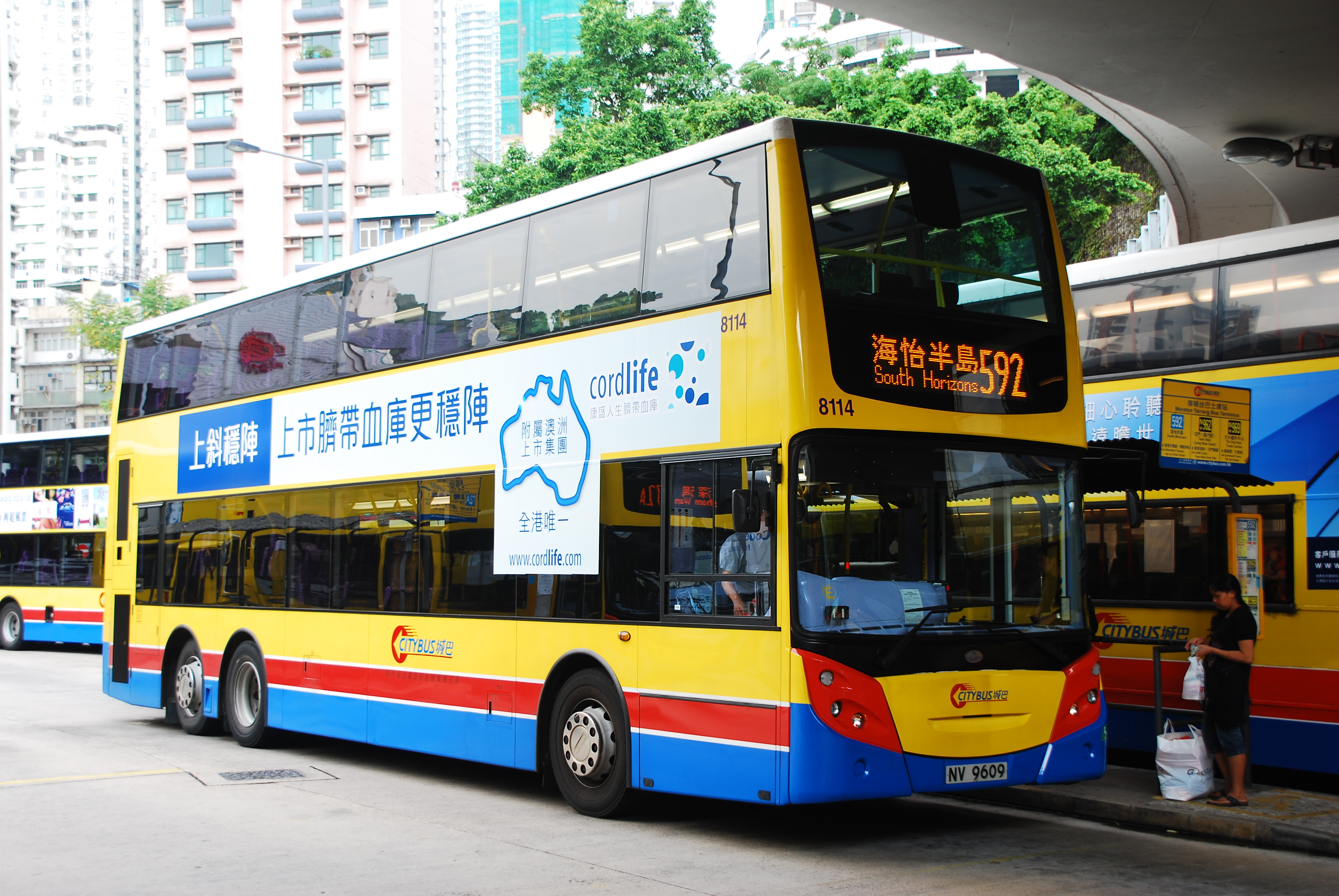 Hong Kong Citybus' Enviro500 (8114/NV9609) in Causeway Bay (Moreton Terrace) Bus Terminus